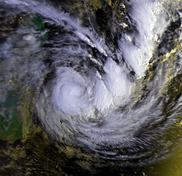 Cyclone Hyacinthe from NOAA-6. Inventory ID: NSS.GHRR.NA.D80025.S0239.E0426.B0300607.GC.